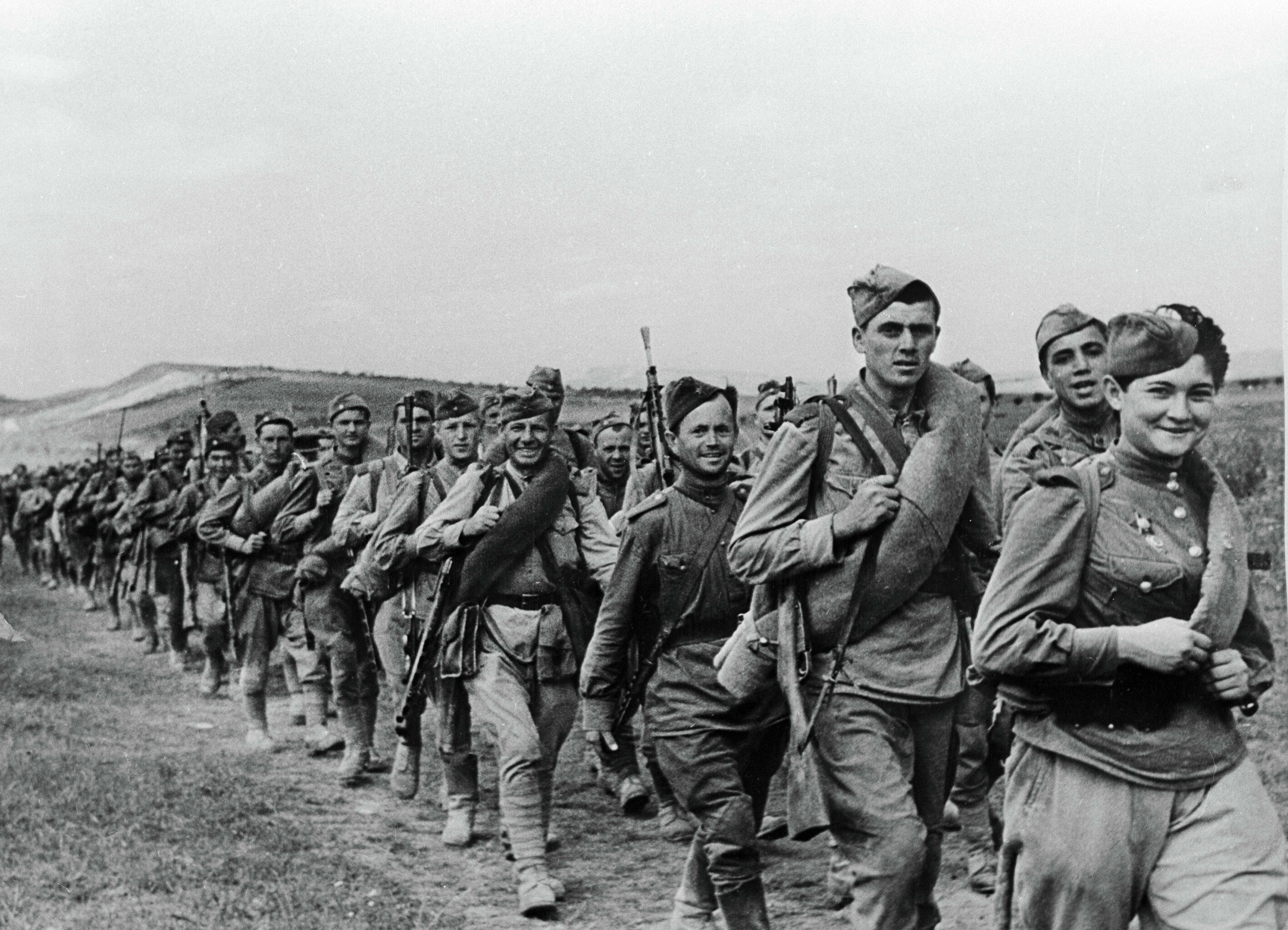 “Soldiers on the march”. Red Army soldiers on the march, the second world war.